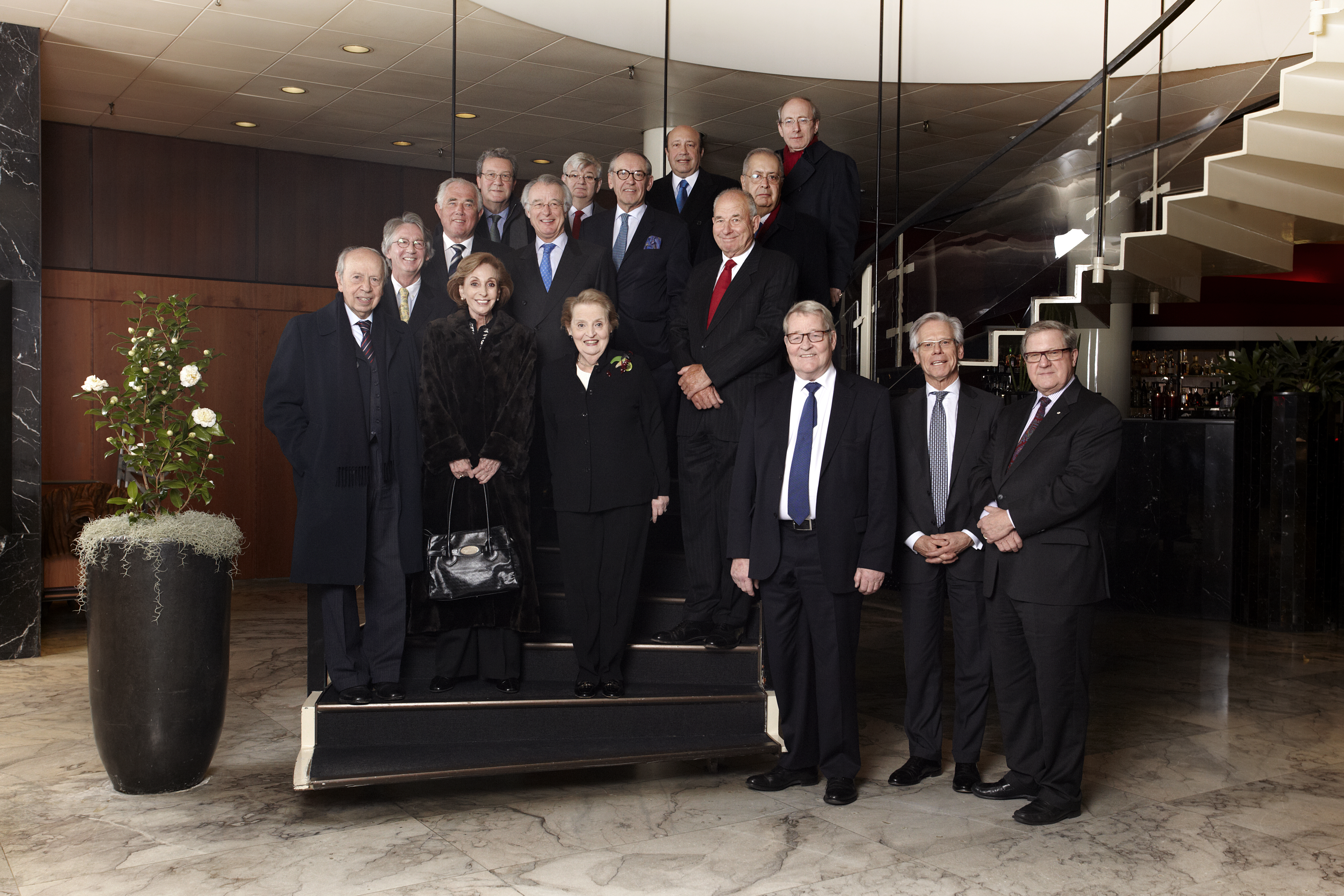 Gruppbild vid Aspen Ministers Forums möte i Köpenhamn. Keywords: Halldór Ásgrímsson